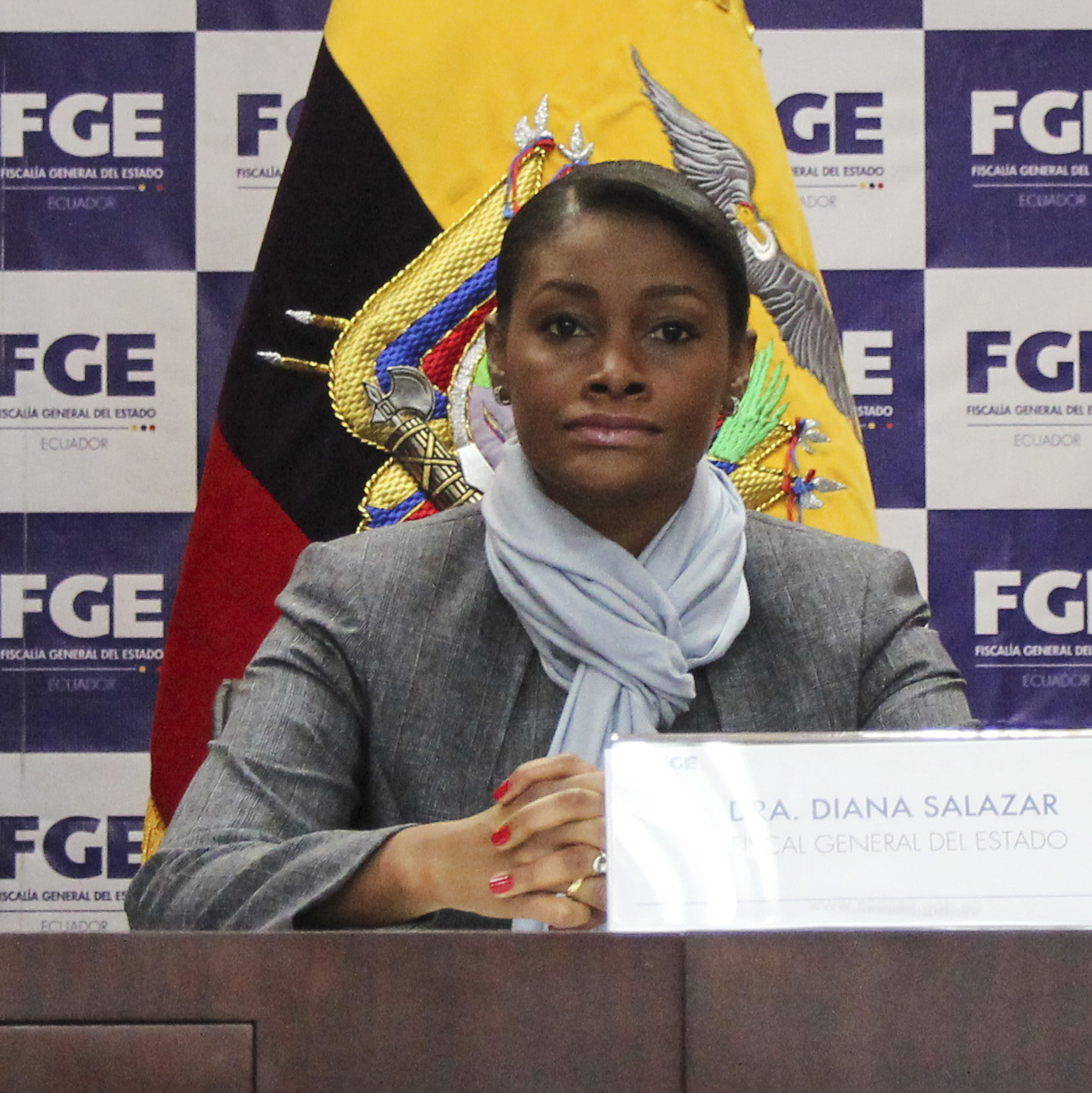 Diana Salazar Mendez Photo: Fiscalía General del Estado / Daniel Alejandro Robles